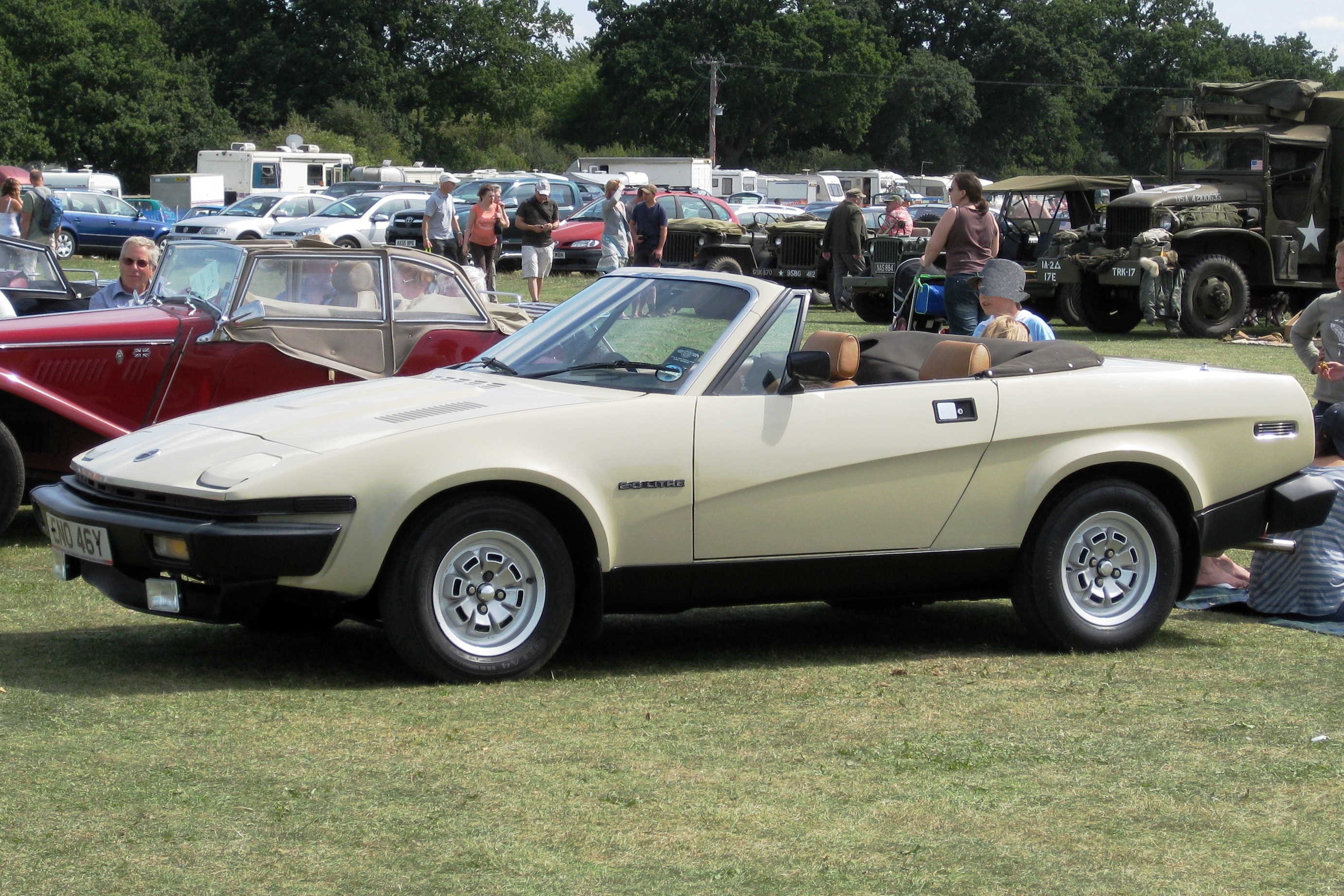 Triumph TR7 open top with top open in profile